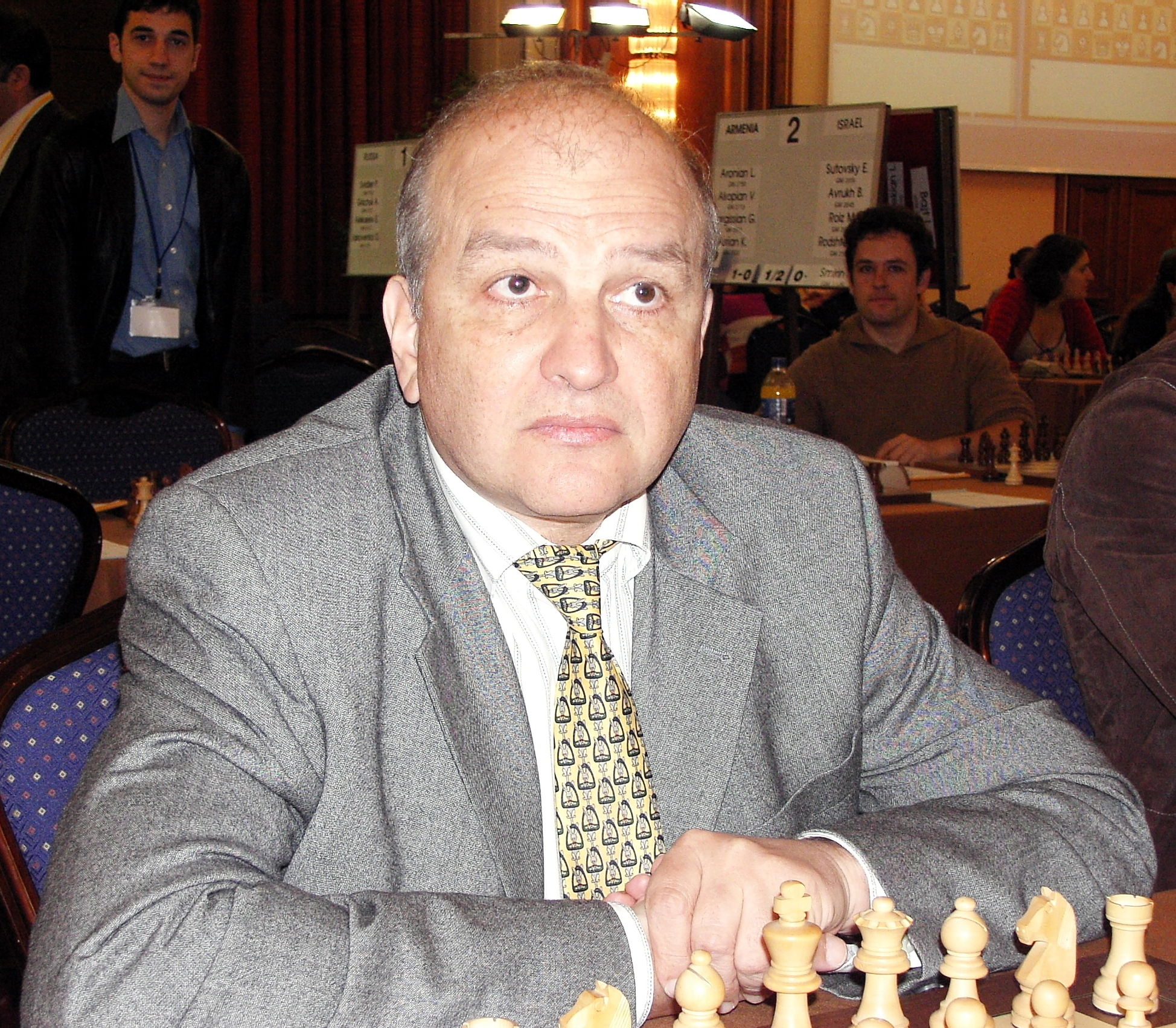 GM Alexander Beliavsky Slovenia, EuroChess Iraklion 2007